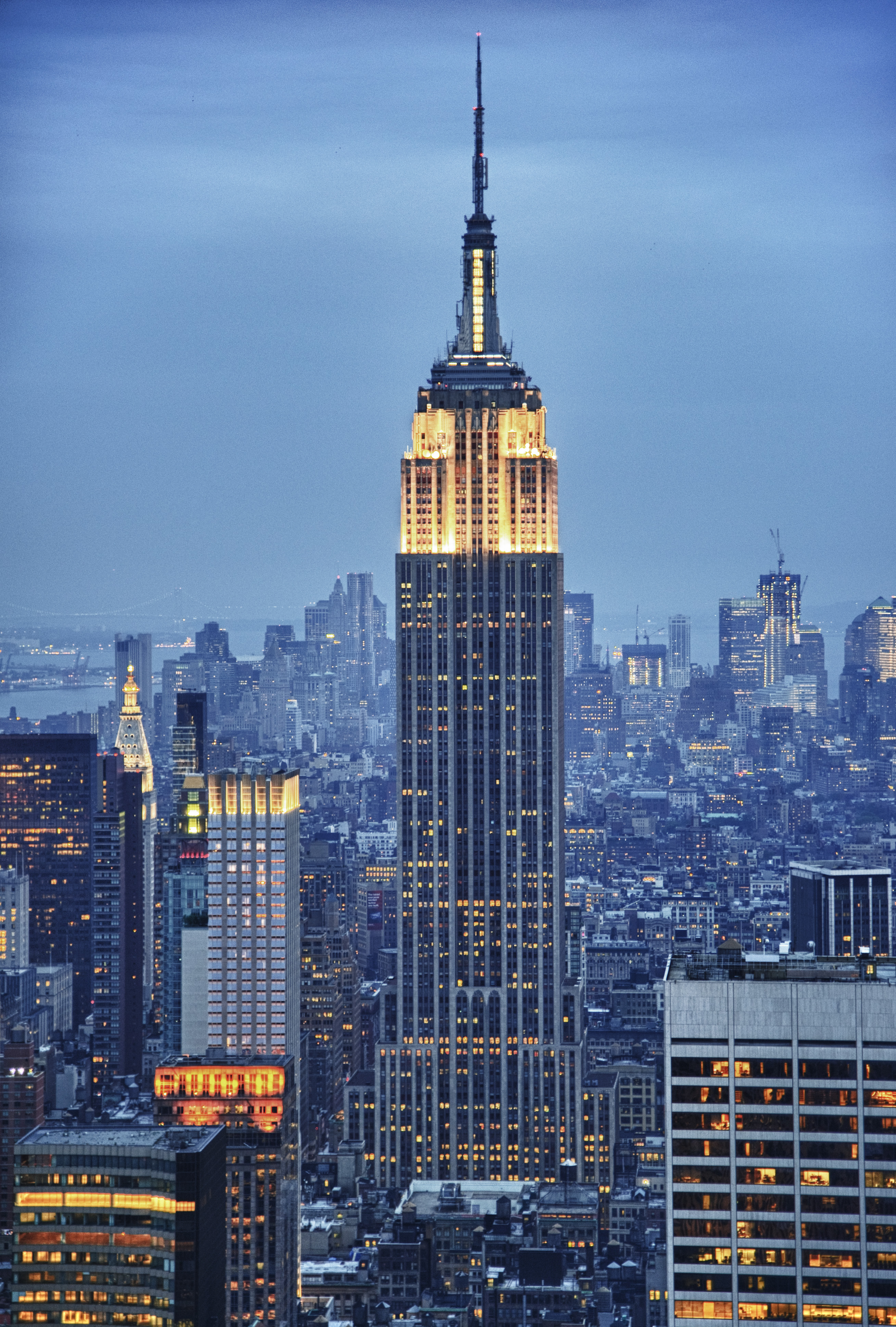 HDR shot of the Empire State Building from the Top of the Rock observation area